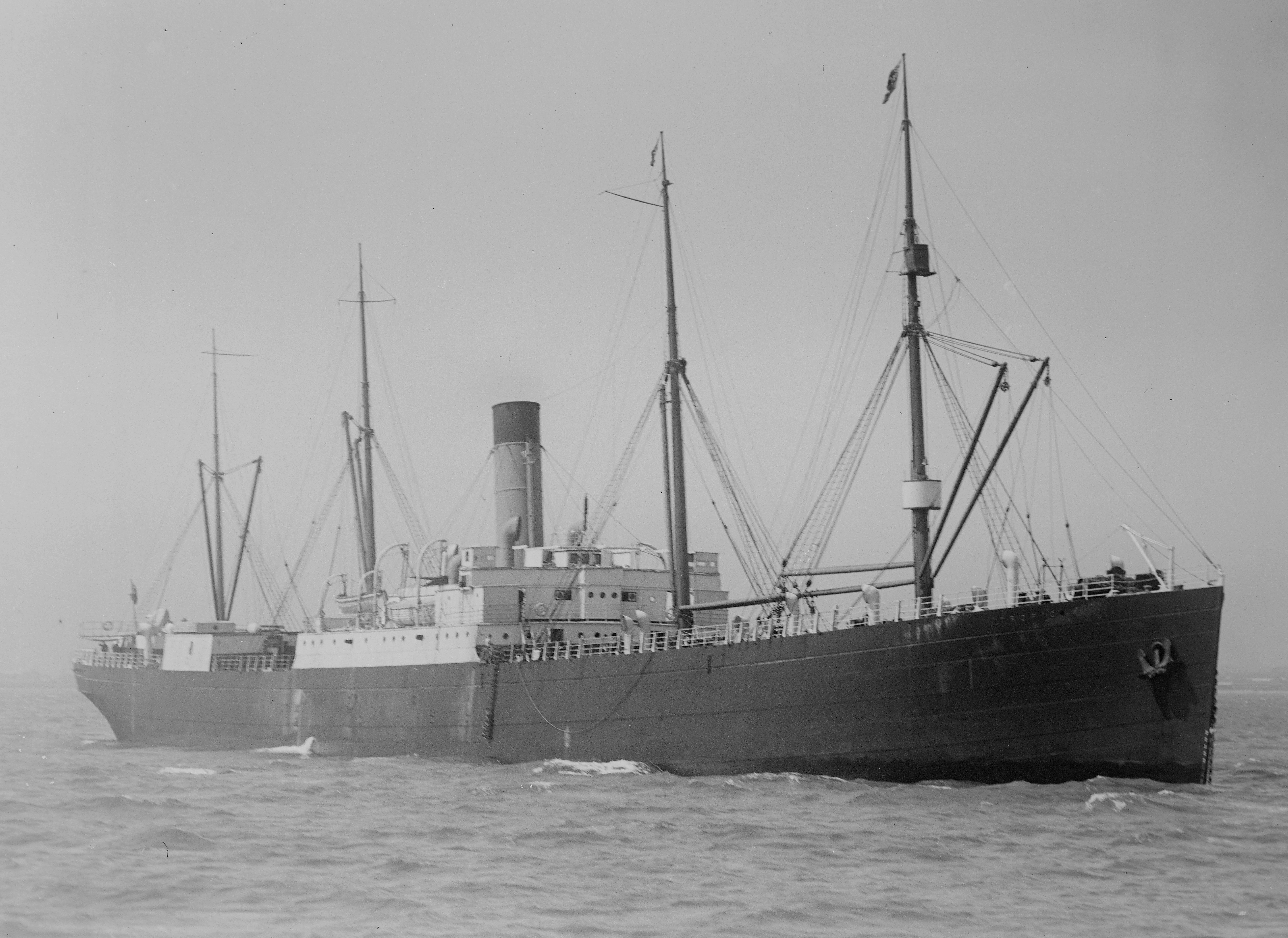 The steamship and White Star Liner Tropic.